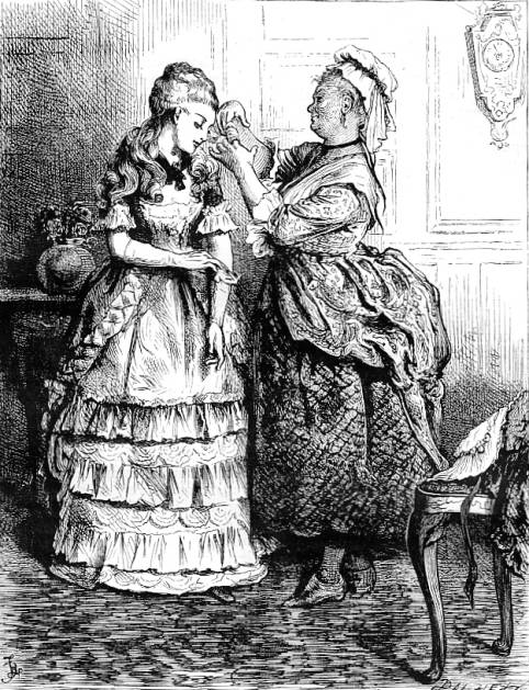 A Tale Of Two Cities, Beautiful Lucie Manette and Miss Pross, her governess who dotes on her, by Fred Barnard